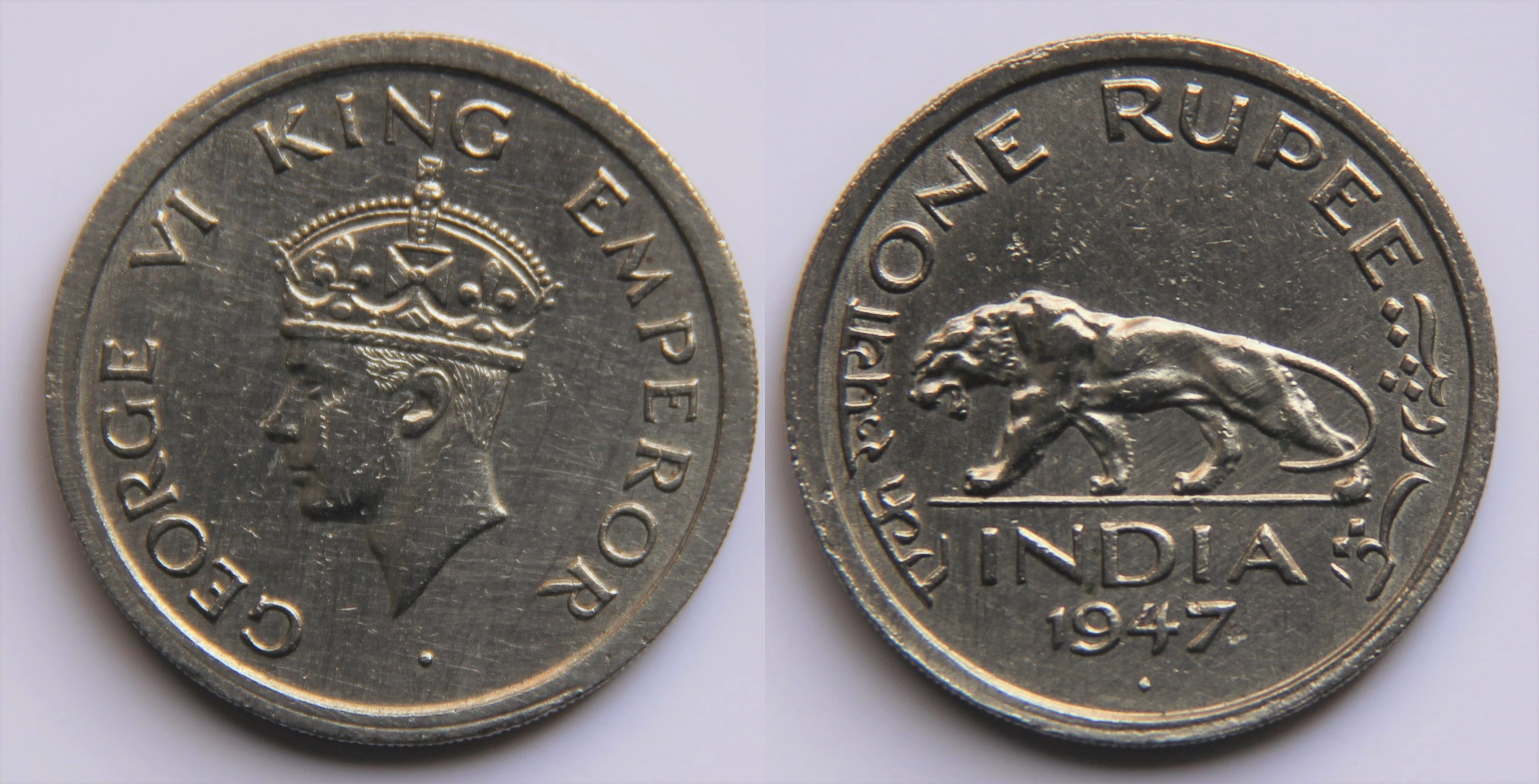 Face value: 1 Indian rupee coin. Country: India. Year of minting: 1947. Metal: Nickel. Shape: Round. Obverse: Crowned head of George VI with lettering "GEORGE VI KING EMPEROR". Reverse: Bengal tiger with face value written in English, Hindi and Urdu, year and country. Edge: Security. Weight: 11.8 g. Diameter: 28 mm. Thickness: 2.48 mm. Orientation: Medal alignment ↑↑. Total mintage: 159,939,000 (1947). Engraver (Obverse): Percy Metcalfe. Engraver (Reverse): P. W. M. Brindley. Comment: Coins minted in Lahore & Mumbai mint. This particular coin was minted in Mumbai (dot below year indicates it was minted in Mumbai). Coin dates to pre independence of India (British Empire period). Monetization status: Demonetized. Data source: This webpage.